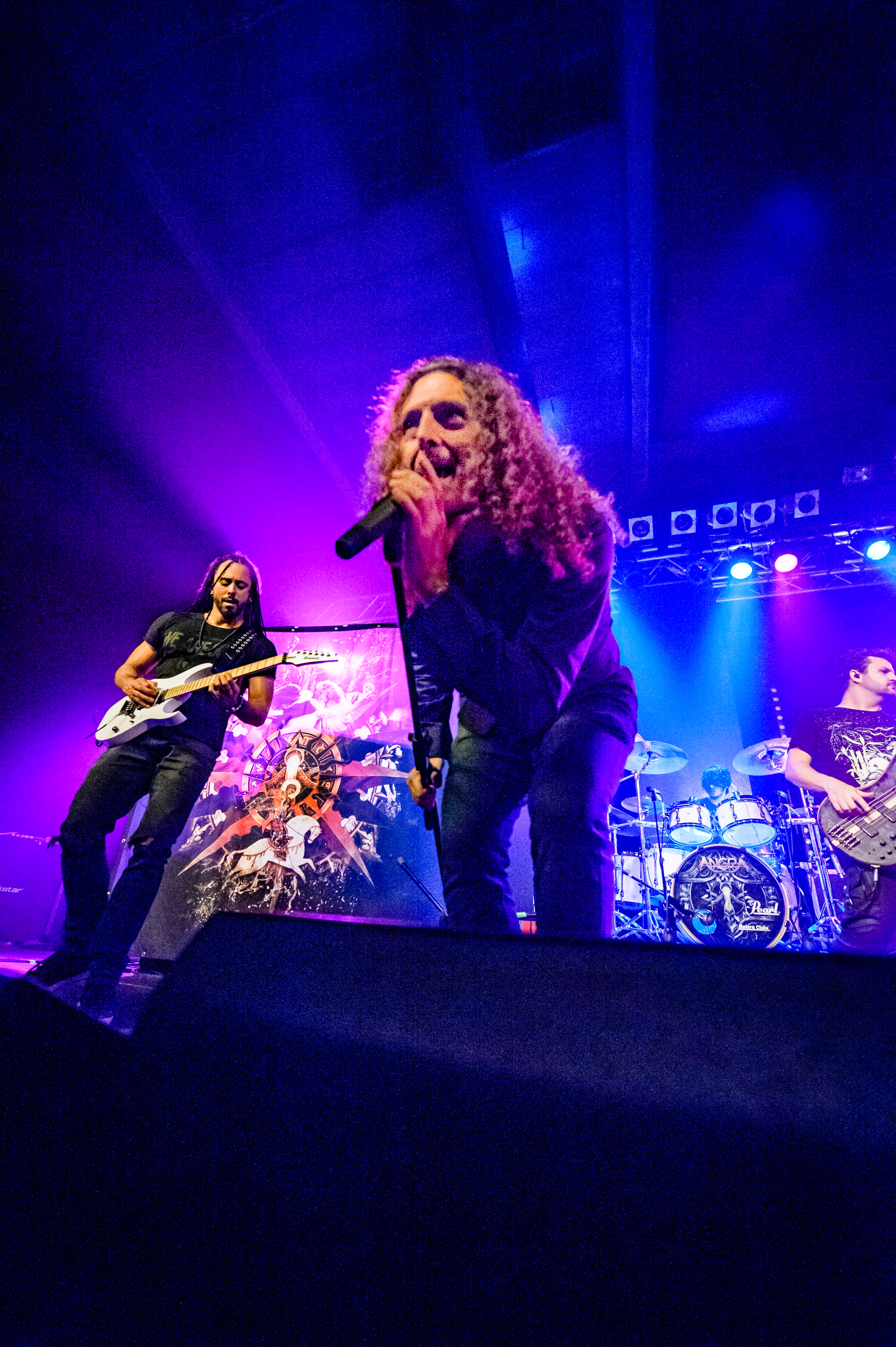 Angra supporting Tarja Turunen - The Shadow Shows Tour; Live Music Hall Köln 2016